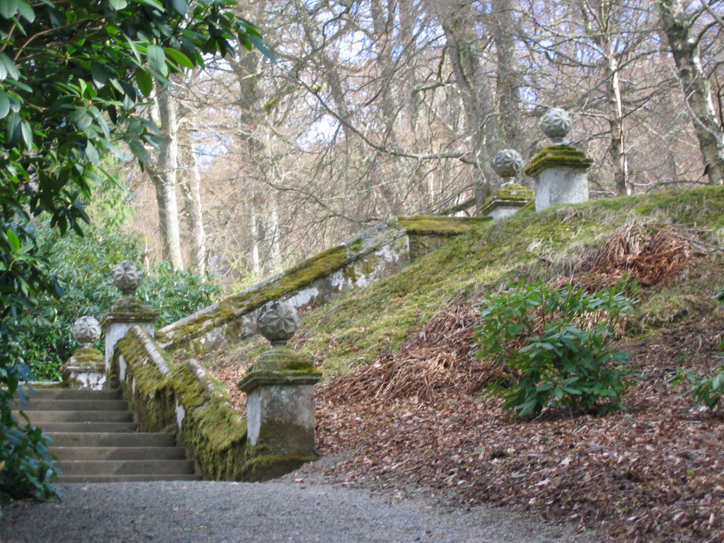 Dawyck Botanic Garden, Scottish Borders